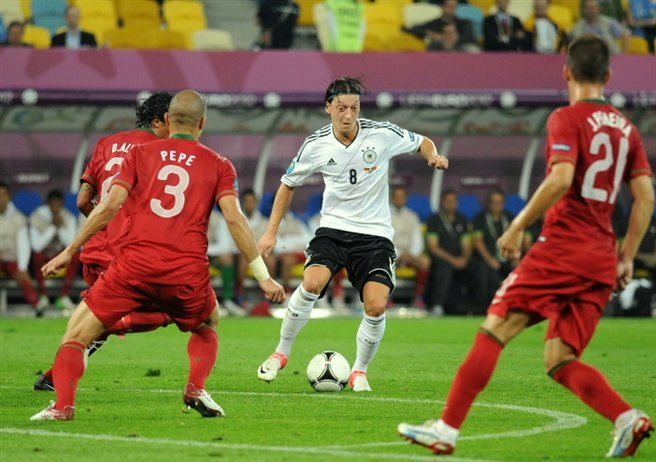 Match between Germany and Portugal during UEFA Euro 2012 that took place in Lviv. Final score was 1:0 (Gómez).